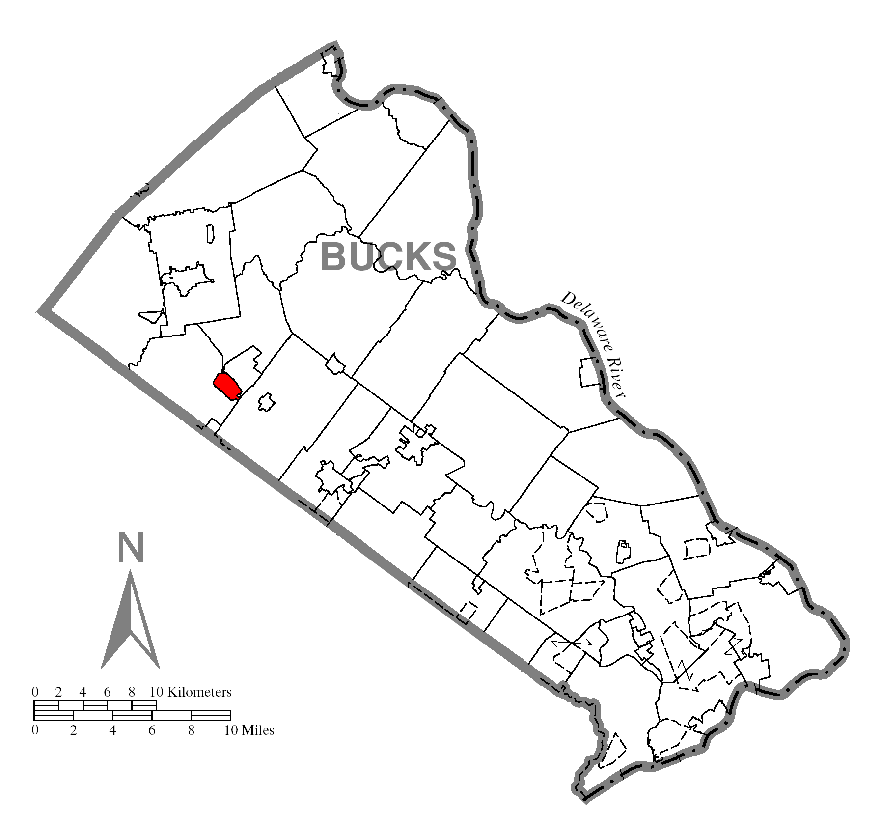 A map of Bucks County showing Sellersville, Pennsylvania (alternate) highlighted on the map.